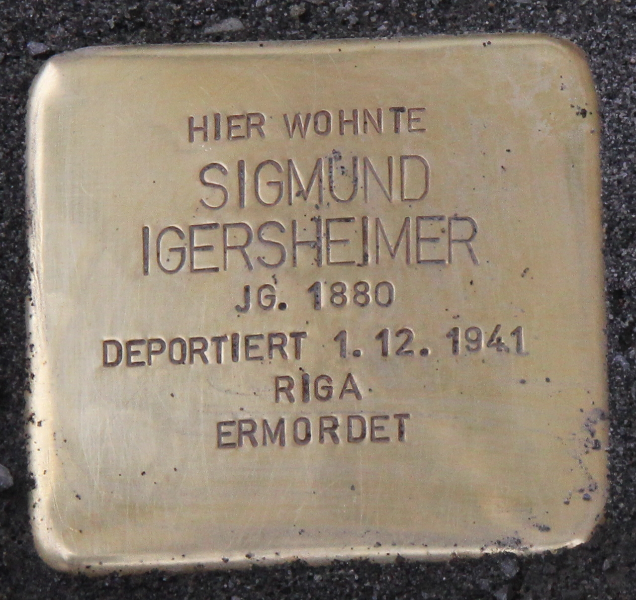 Stolpertein placed in Bad Mergentheim